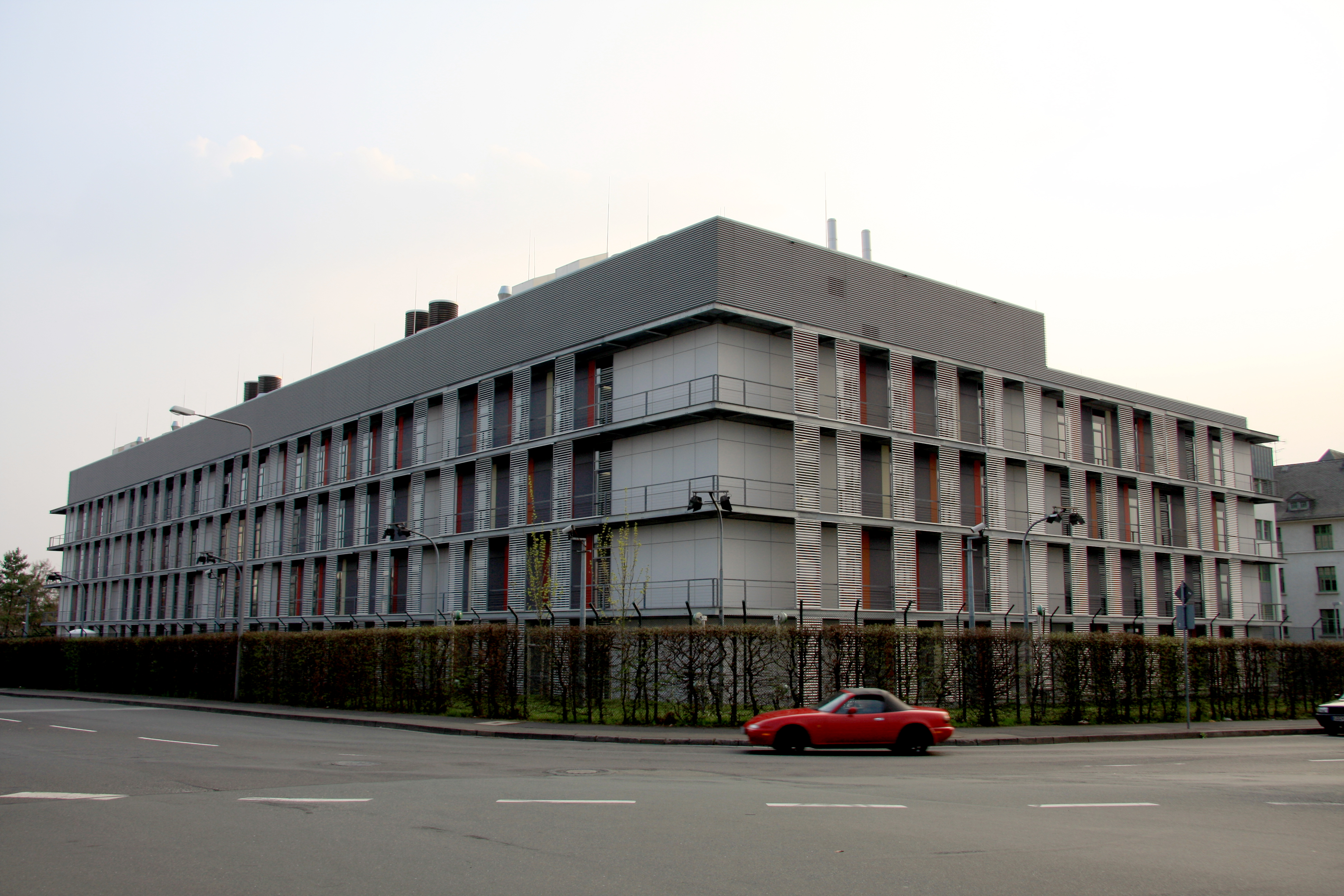 Federal Criminal Police Office in (Wiesbaden, Äppelallee), Newly constructed forensic laborotory